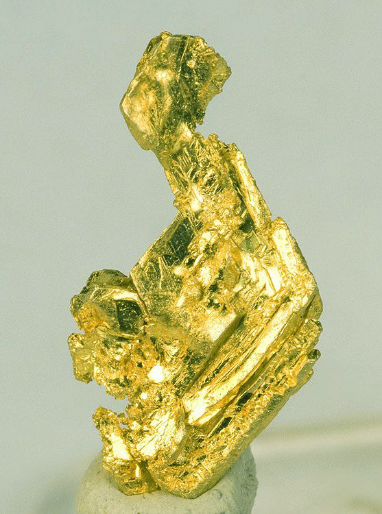 Gold Locality: Round Mountain Mine, Round Mountain District, Nye County, Nevada, USA (Locality at ) Size: 2.2 x 1.2 x 0.4 cm. This fine, bright gold specimen is highlighted by large, flattened, echelon octahedrons that look like shelves, and the rest of the gold specimen extends from them. There are even "lips" on the shelves. This excellent, two-sided piece is from recent finds at the Round Mountain Mine of Nevada. Ex. Mark Mauthner Collection.